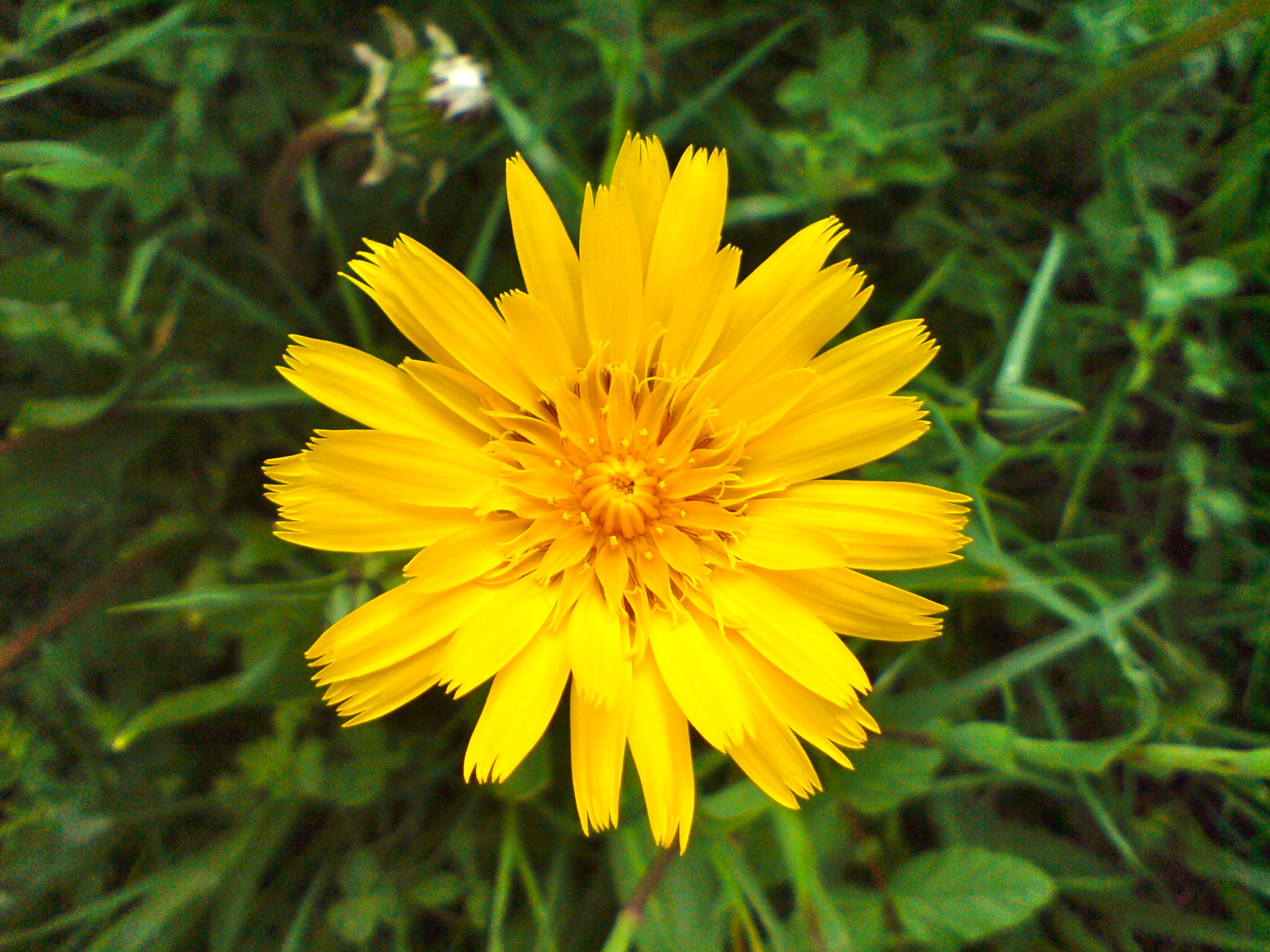 Meadow Salsify surviving on the fringes of a pasture, after the first cut of hay and silage has been brought in.